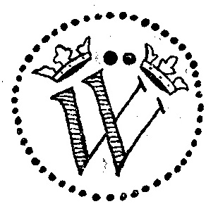 Seal of Strömsberg ironworks in Sweden, 18th century.